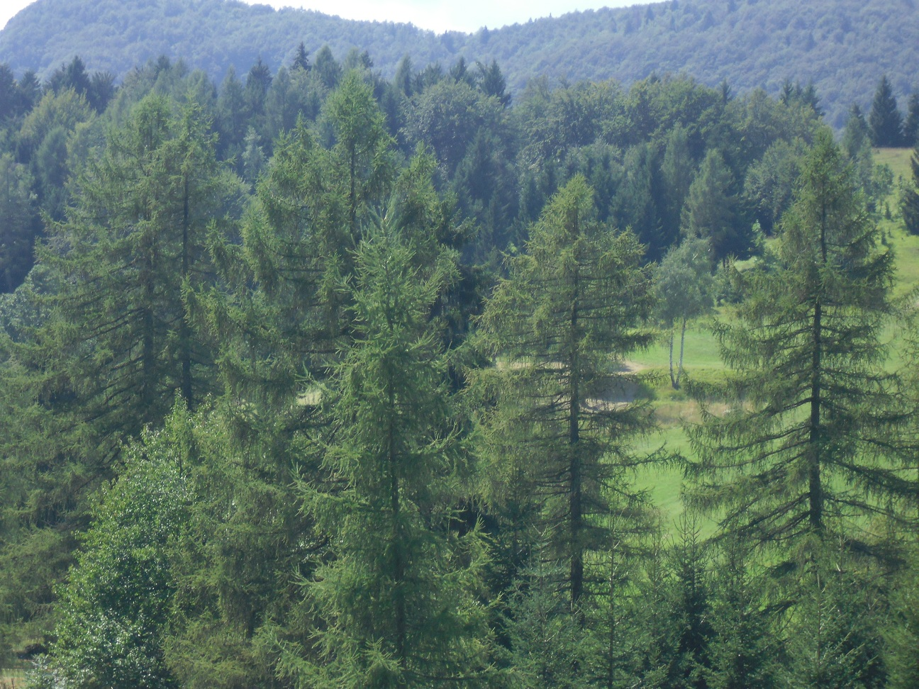 The larch path Excalibur